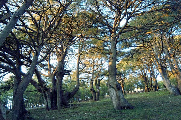 Cedar forest inside the Al Shouf Cedar Nature Reserve